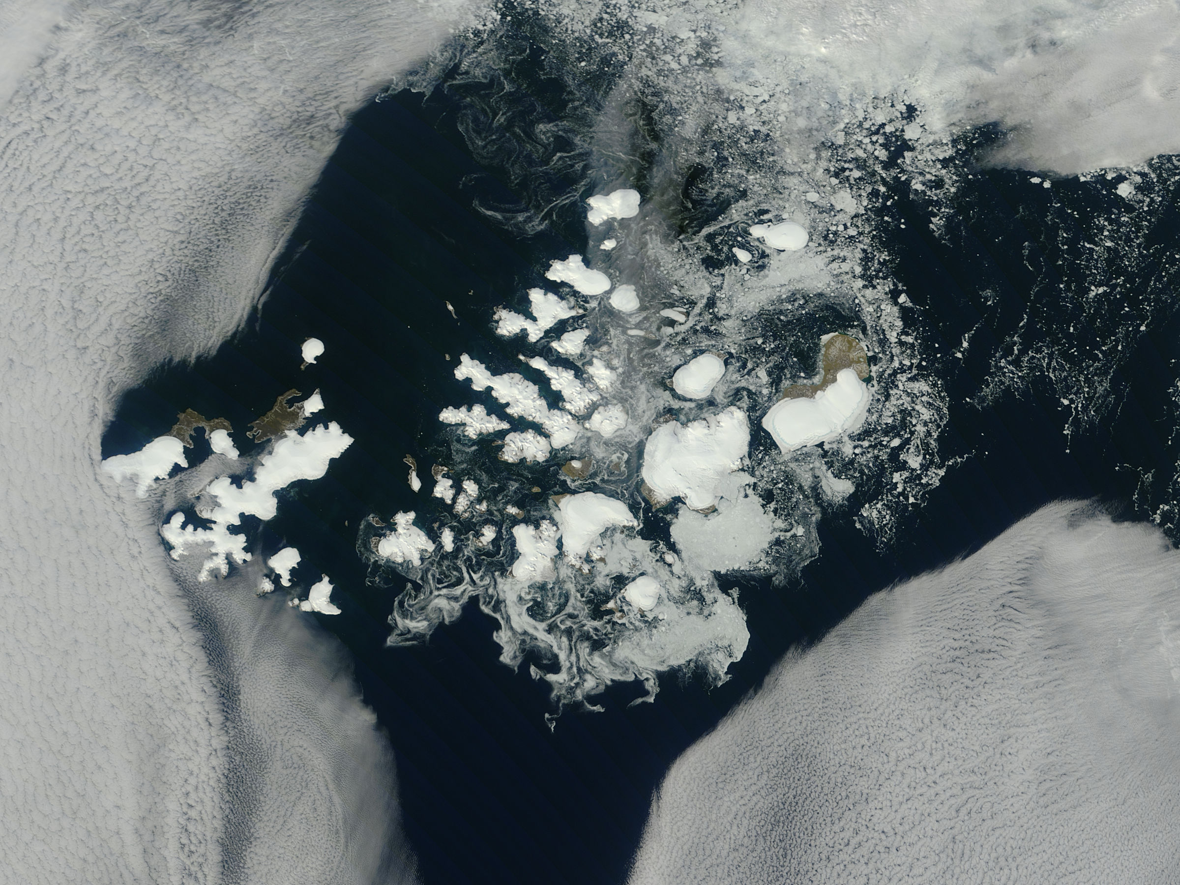 NASA image captured this true-color image on August 14, 2011 The clouds parted over the northeast Barents Sea region of the Arctic Ocean in late summer allowing a view of the ice-covered islands of Franz Josef Land (Russia) forming a stark-white contrast to the surrounding dark sea water. The Moderate Resolution Imaging Spectroradiometer (MODIS) aboard the Terra satellite captured this true-color image on August 14, 2011. Franz Josef Land is an archipelago of 6 main islands and about 135 small islands, with a total landmass of about 16,134 square kilometers (6,229 square miles). The terrain is primarily elevated table lands and low hills, with the highest point rising to 620 m (2034 feet). The glaciers on the islands of Franz Josef are currently in a state of retreat, and in this image large areas of the main islands clearly appear ice free. However, up to 85% of the island’s landmass is permanently ice-covered, with an average ice thickness of about 180 m (590 feet). On Graham Bell Island —the large island on the eastern edge of the group— the Windy Dome Ice Cap reaches a depth of greater than 500 m (1,640 feet). Although being late summer, sea ice can still be seen surrounding many of the islands. Credit: NASA/GSFC/Jeff Schmaltz/MODIS Land Rapid Response Team NASA Goddard Space Flight Center enables NASA’s mission through four scientific endeavors: Earth Science, Heliophysics, Solar System Exploration, and Astrophysics. Goddard plays a leading role in NASA’s accomplishments by contributing compelling scientific knowledge to advance the Agency’s mission. Follow us on Twitter Like us on Facebook Find us on Instagram